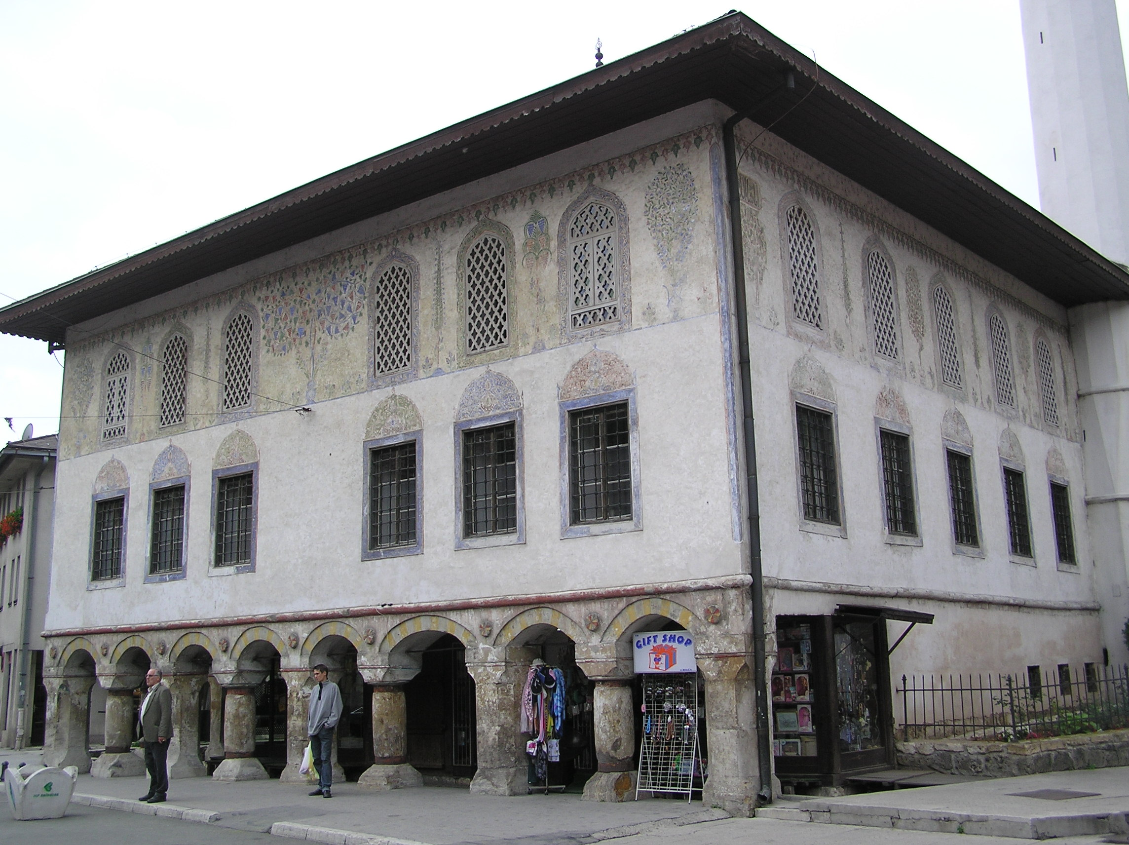 Sulejmanija DÅ¾amija, Suleimania Mosque or Colored Mosque